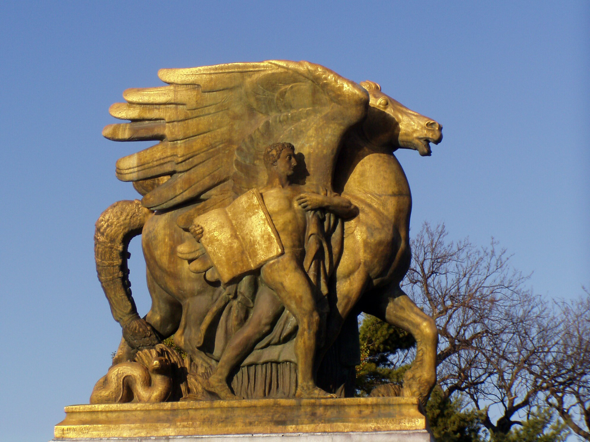 Arts of Peace in Washington DC. Sculpted by James Earle Fraser.